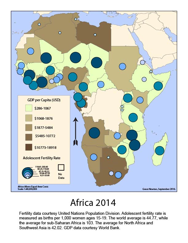 Proportional symbol map showing adolescent fertility and poverty in Africa.